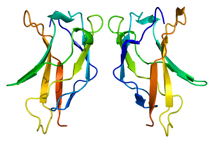 Structure of the RELA protein. Based on PyMOL rendering of PDB 1bft.